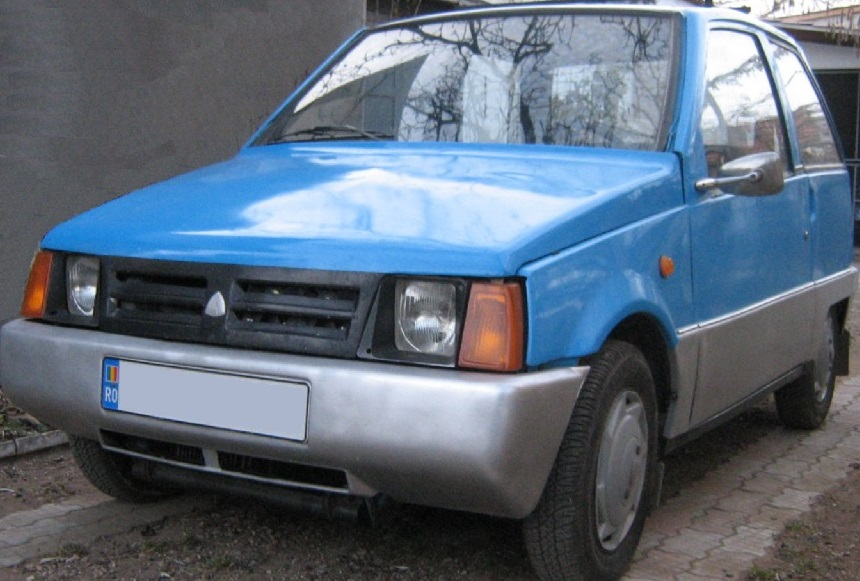 Dacia 500 Lăstun Romanian city car produced by Tehnometal Timişoara between 1988–1991